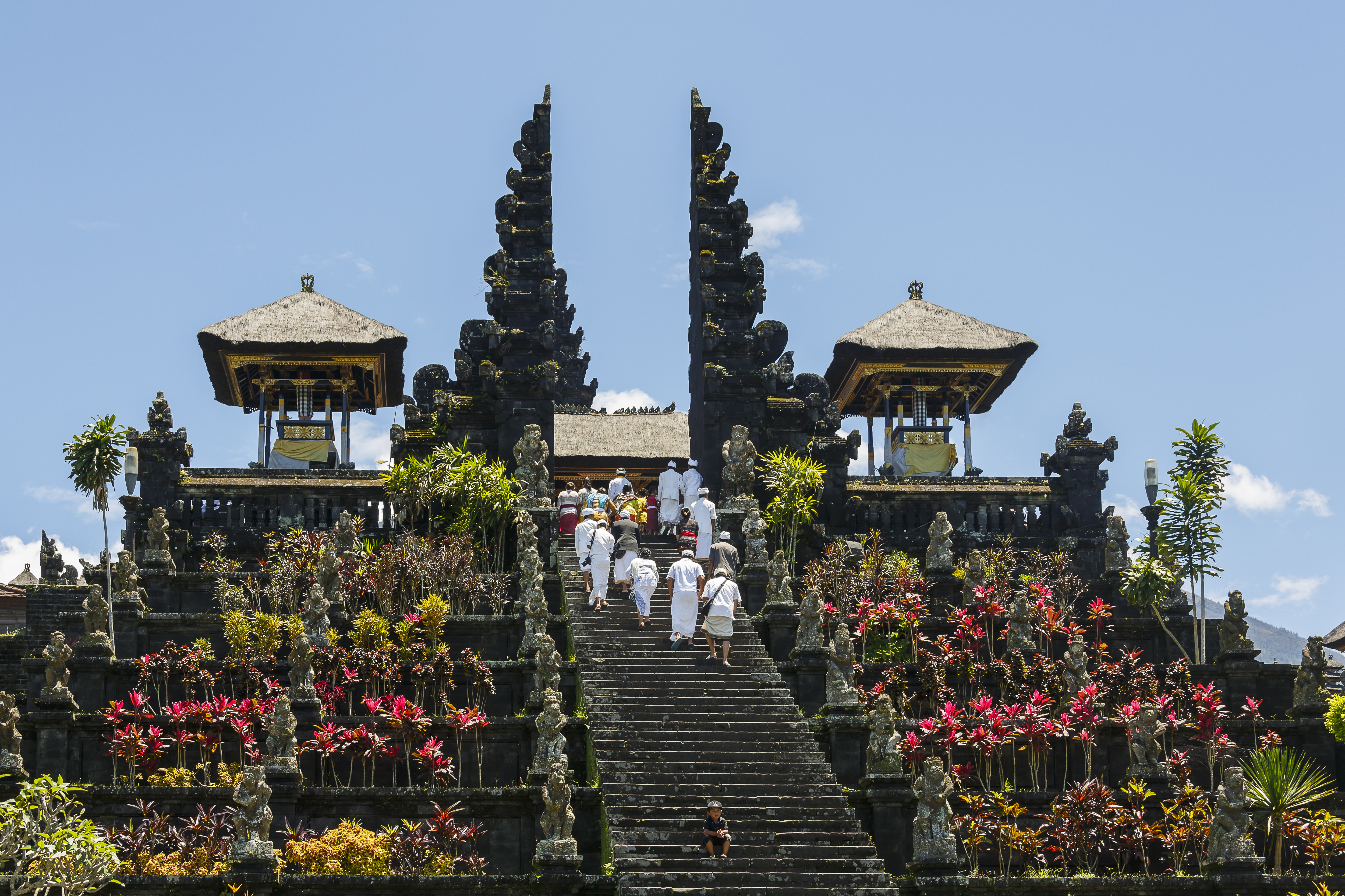 Besakih, Bali, Indonesia: The Mother Temple of Besakih, or Pura Besakih, in the village of Besakih on the slopes of Mount Agung in eastern Bali, Indonesia, is the most important, the largest and holiest temple of Hindu religion in Bali.